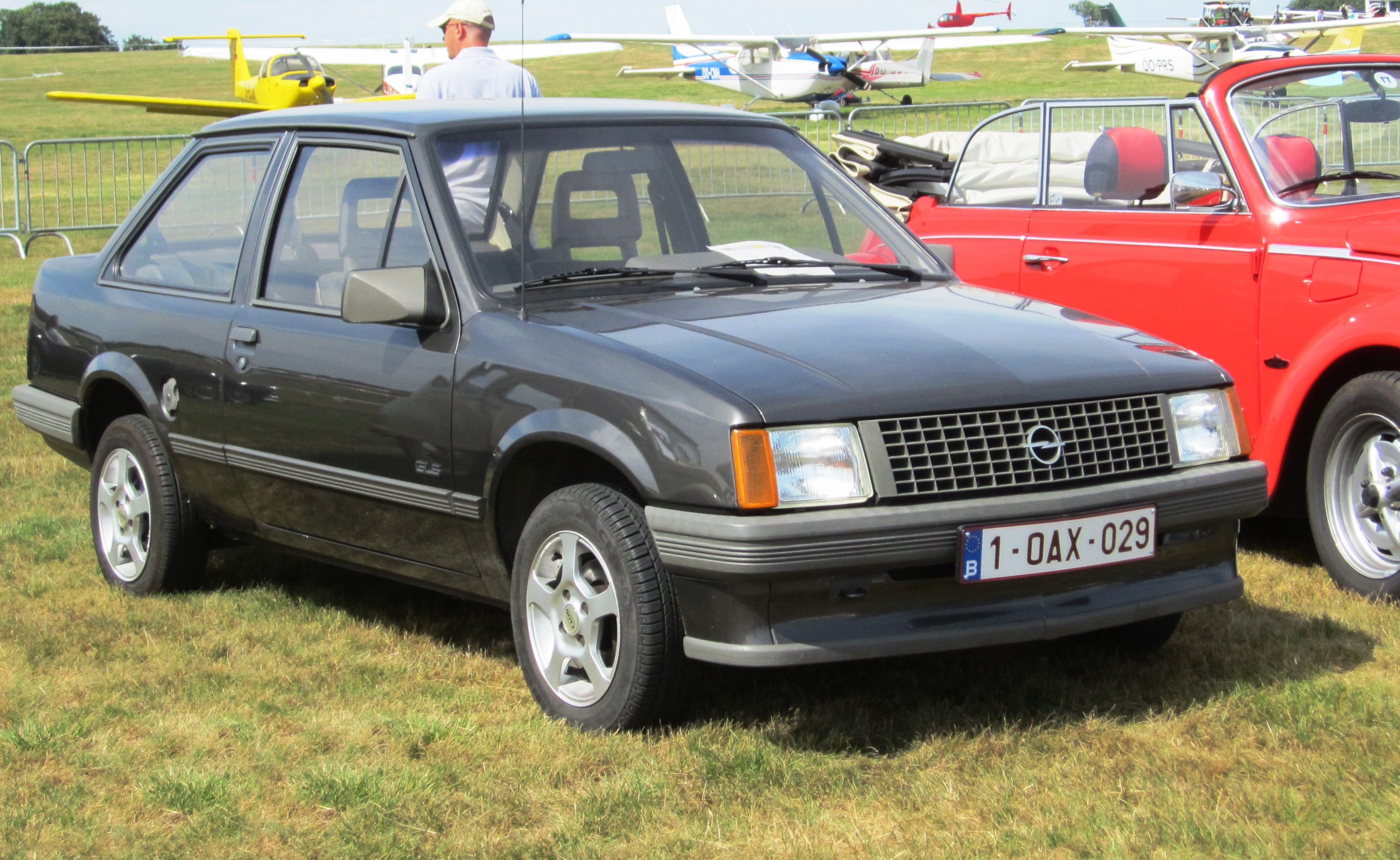 Opel Corsa A 2-door notchback